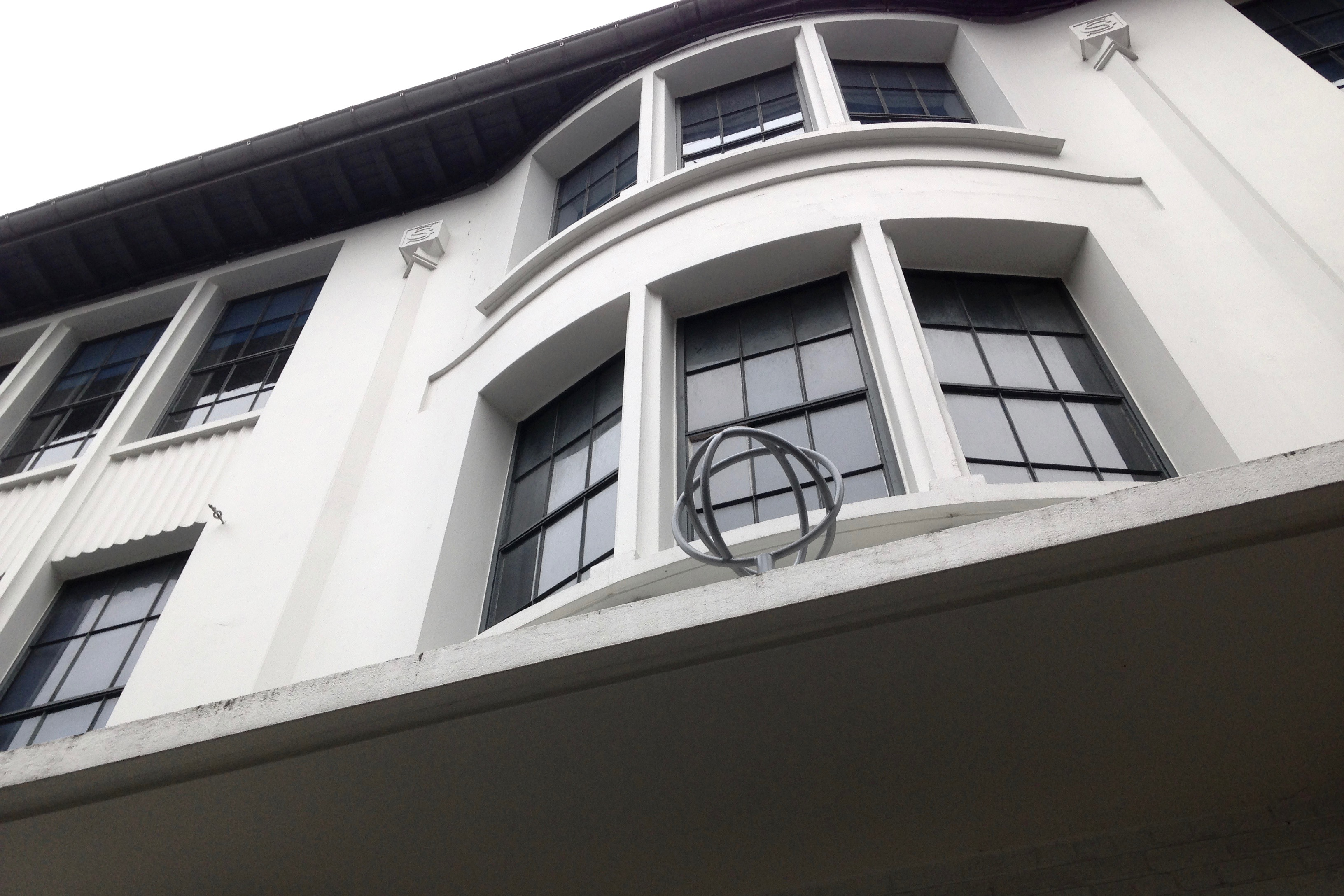 Entrance of the Mundaneum (Mons, Belgium)